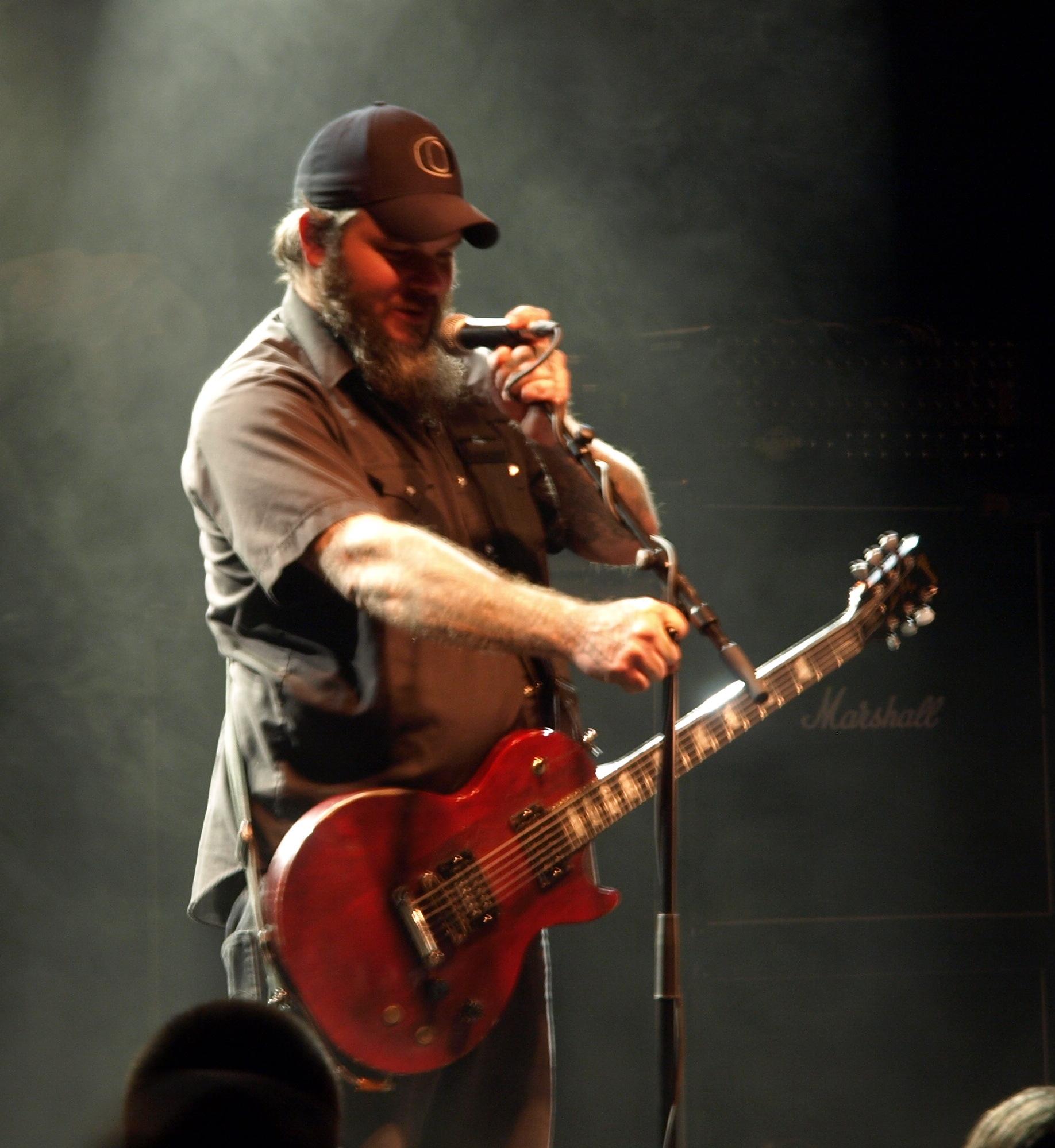 Scott Kelly solo